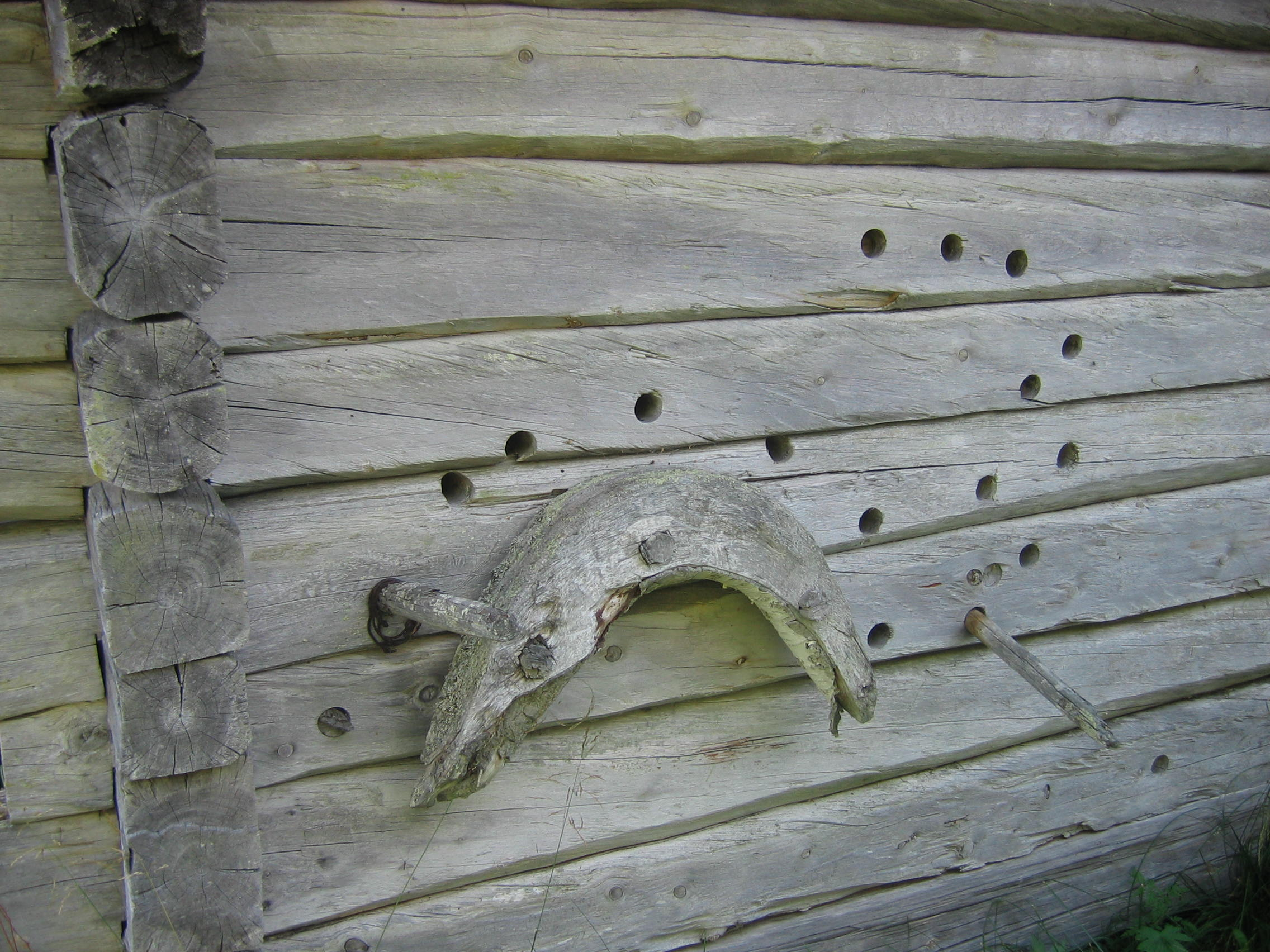 An oldfashioned Finnish mechanism for bending wooden poles.